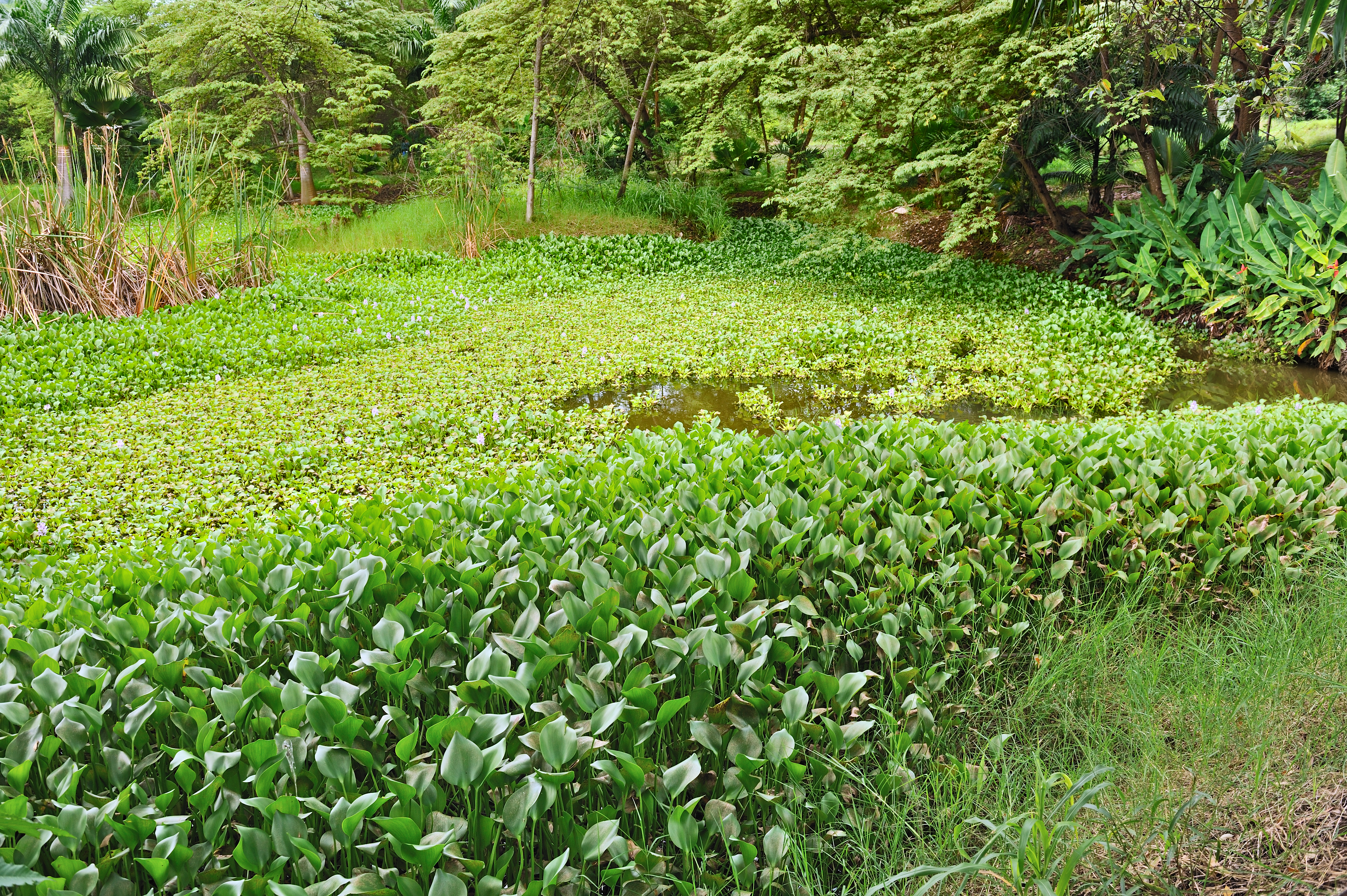 Ecuador, Portoviejo, Botanical Garden: pond covered with the invasive plant Eichhornia crassipes, the Common Water Hyacinth.